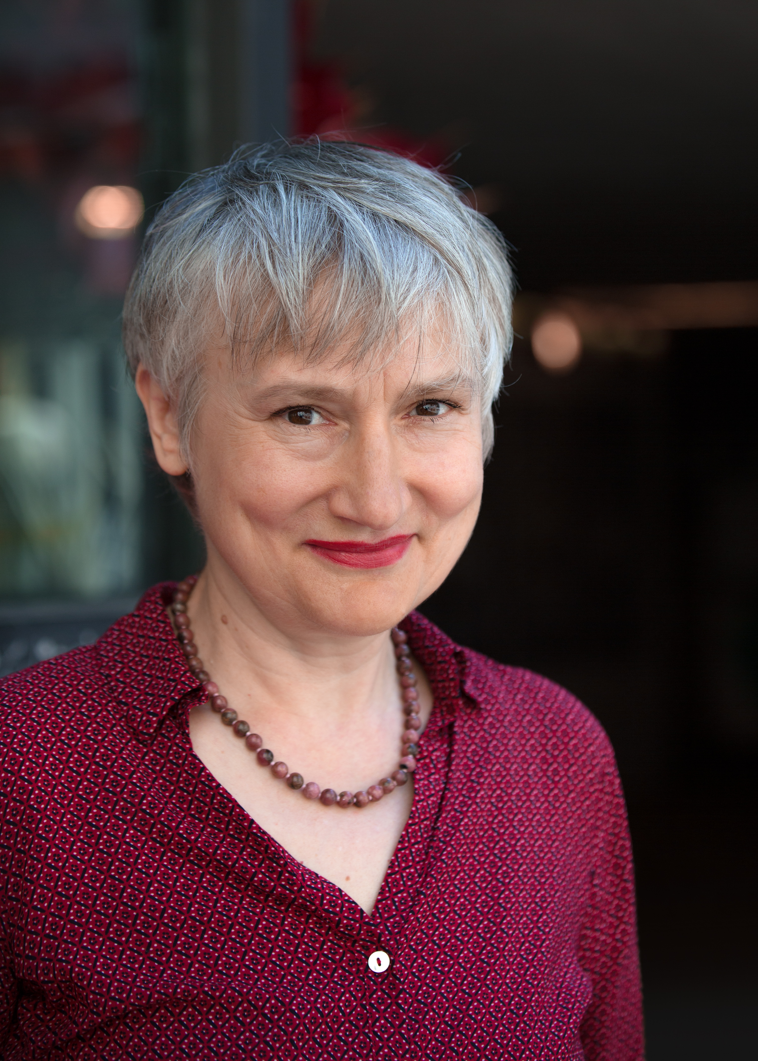 Austrian film director and producer Gabriele Mathes (Künstlerhaus, Vienna, Austria).